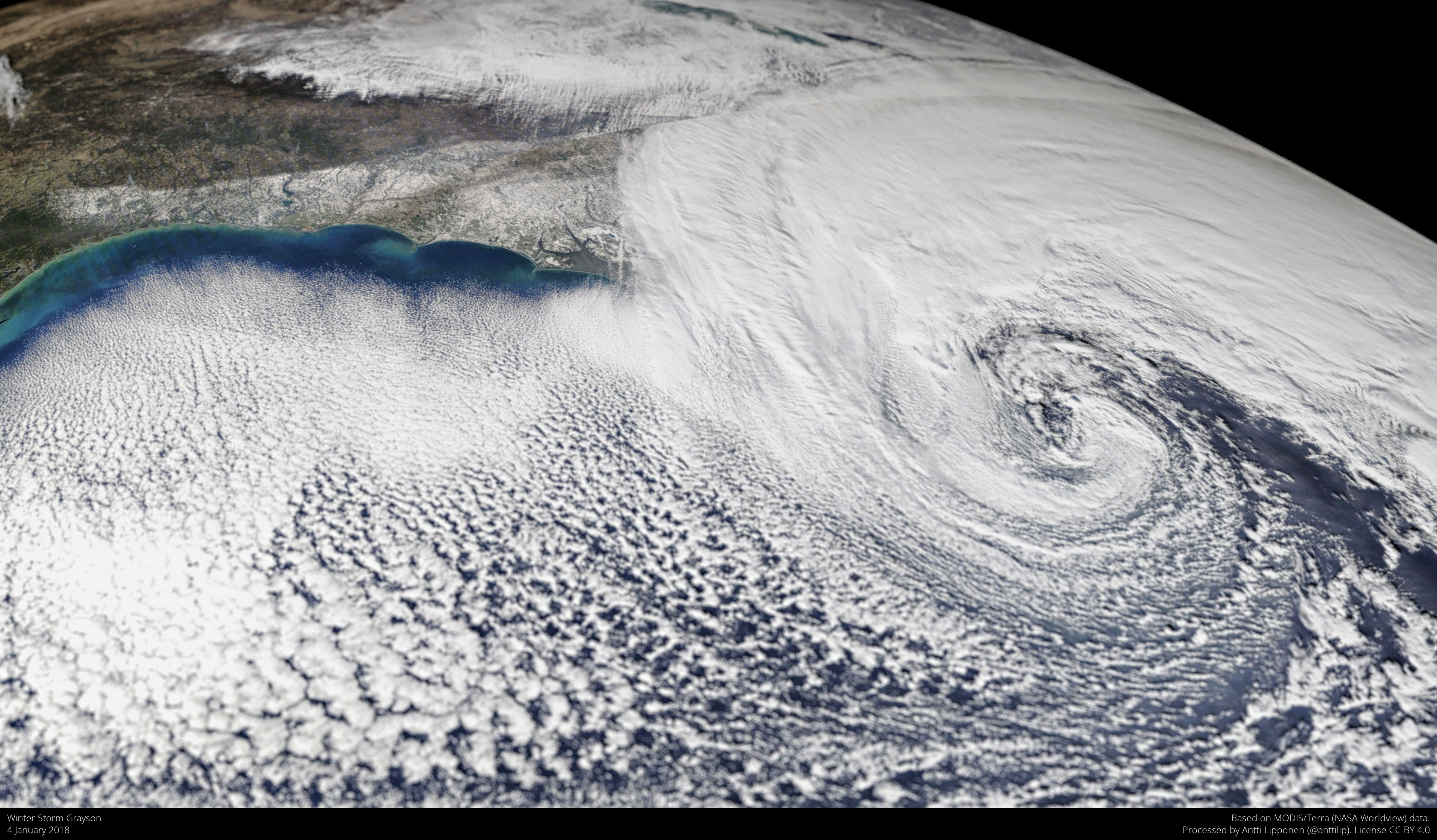 Winter Storm Grayson 4 January 2018 based on MODIS / Terra satellite images.